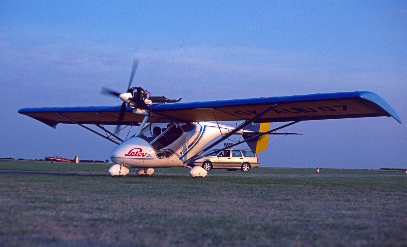 OK-AUU07